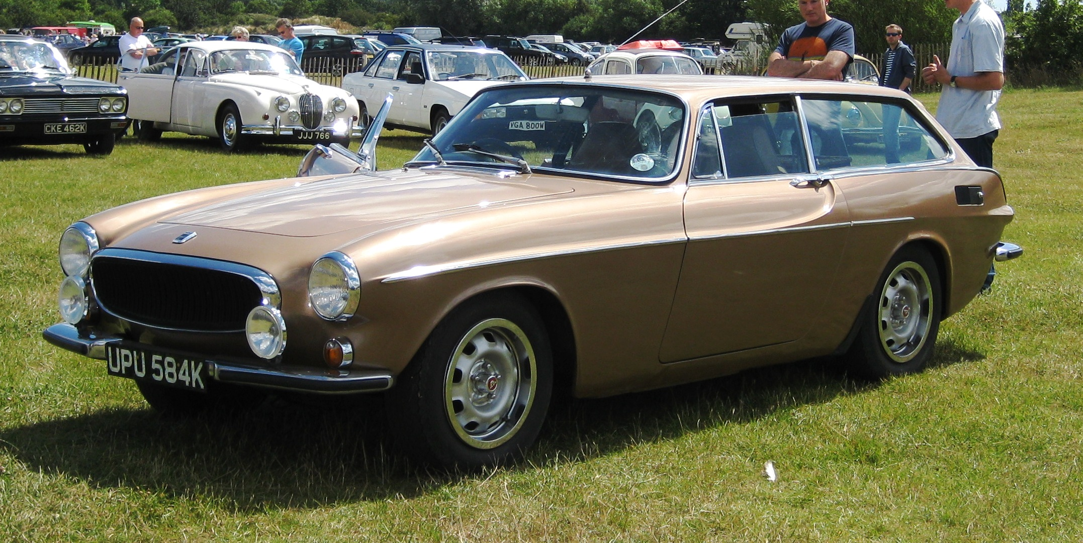 Volvo 1800ES registered approx 1971